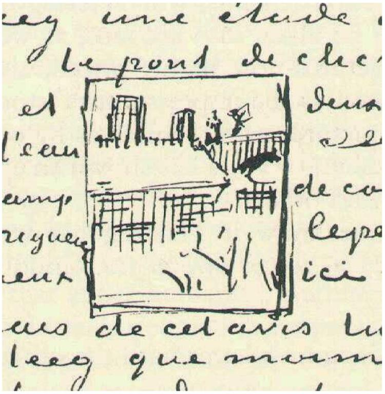 Detail of a letter by Vincent van Gogh with the sketch of the Pont de Clichy